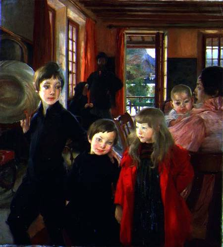 The Artist's Family